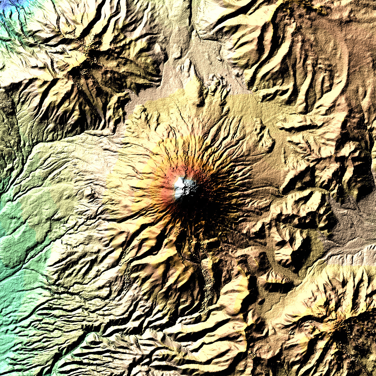 Digital elevation model of Cotopaxi. Cotopaxi Volcano has an inner crater with a diameter of 120 m by 250 m inside the outer crater (800 m x 650 m). Blue and green correspond to the lowest elevations in the image, while beige, orange, red, and white represent increasing elevations.